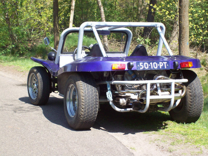 Bermuda Buggy